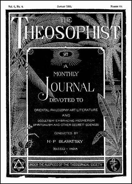 The Theosophist Magazine cover. Vol. 6, No. 64 January 1885.